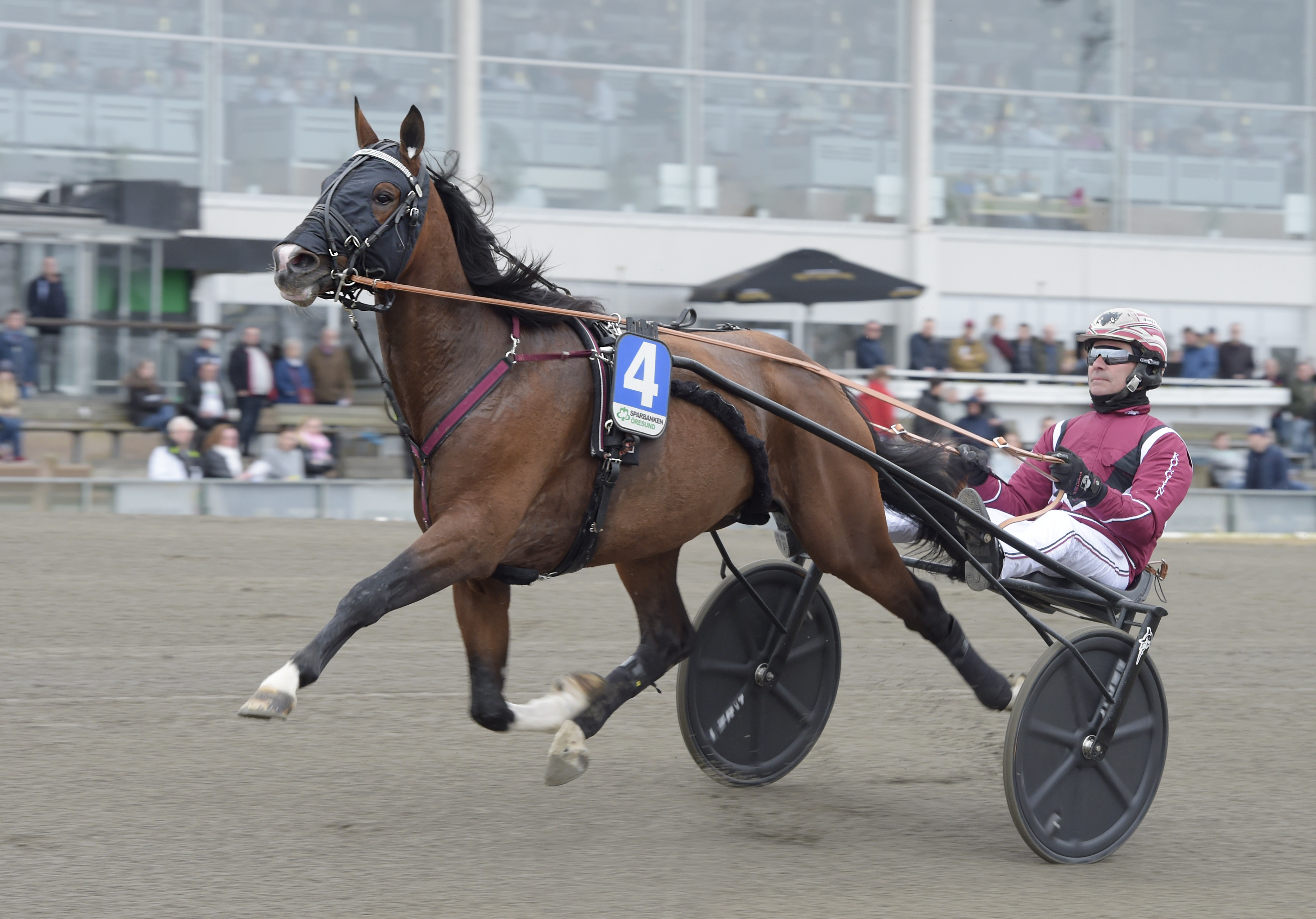 Rajesh Face & Lutfi Kolgjini, Jägersro, 2017-04-08.